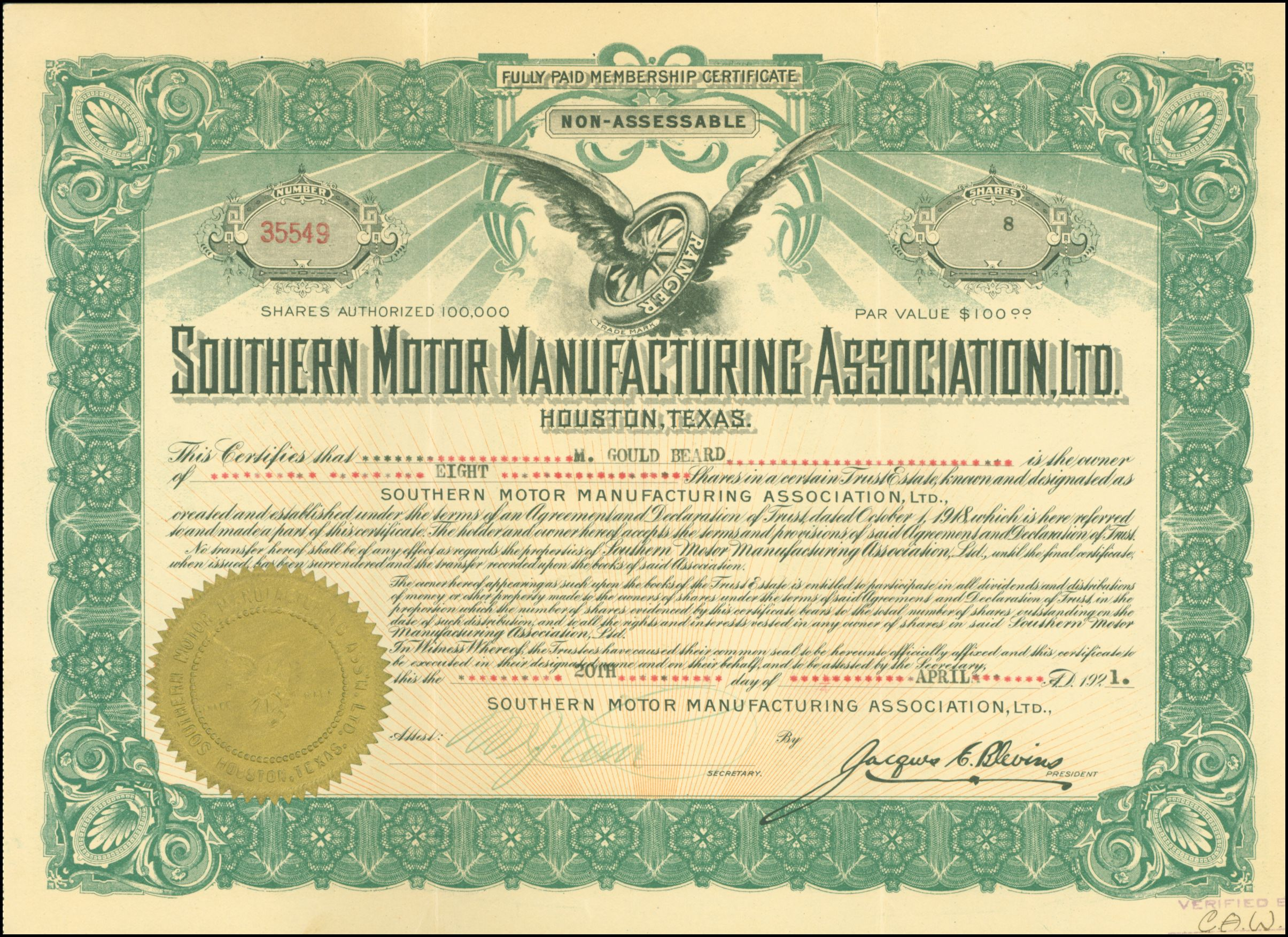 Share of the Southern Motor Manufacturing Association, issued 20. April 1921